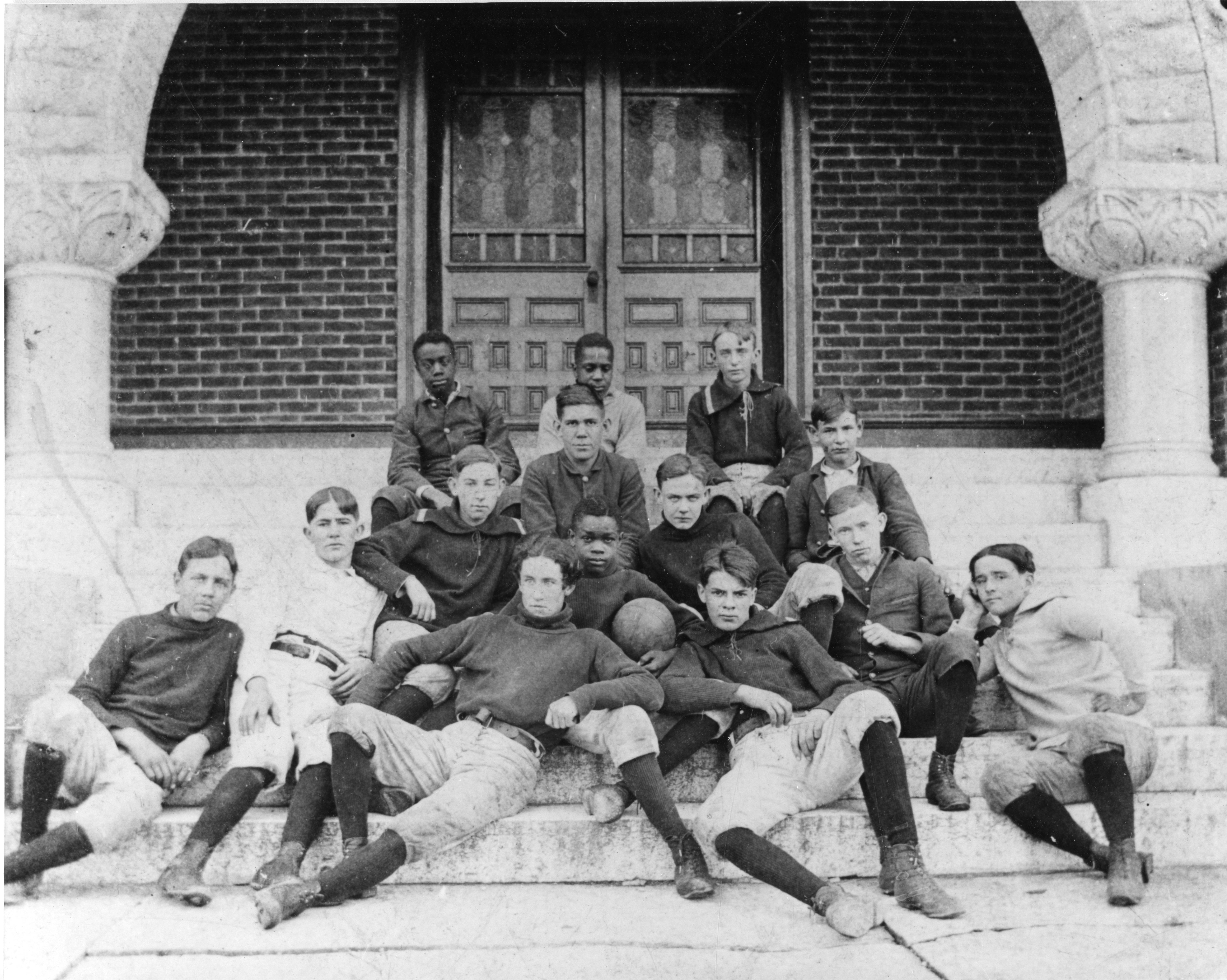 Indiana Soldier's and Sailor's Home football team, 1896